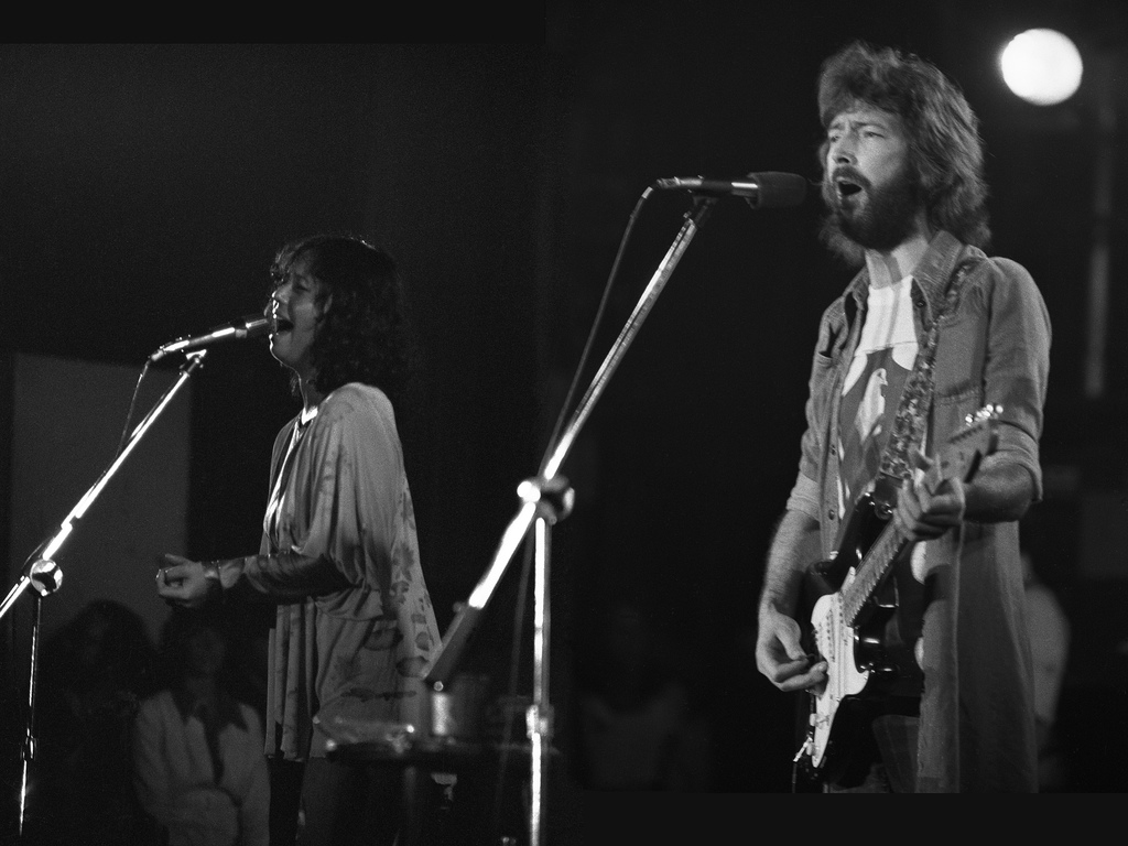 Eric Clapton with Yvonne Elliman; Swing Auditorium, San Bernardino, CA; There's One In Every Crowd Tour; Aug. 15, 1975. He's playing Blackie.